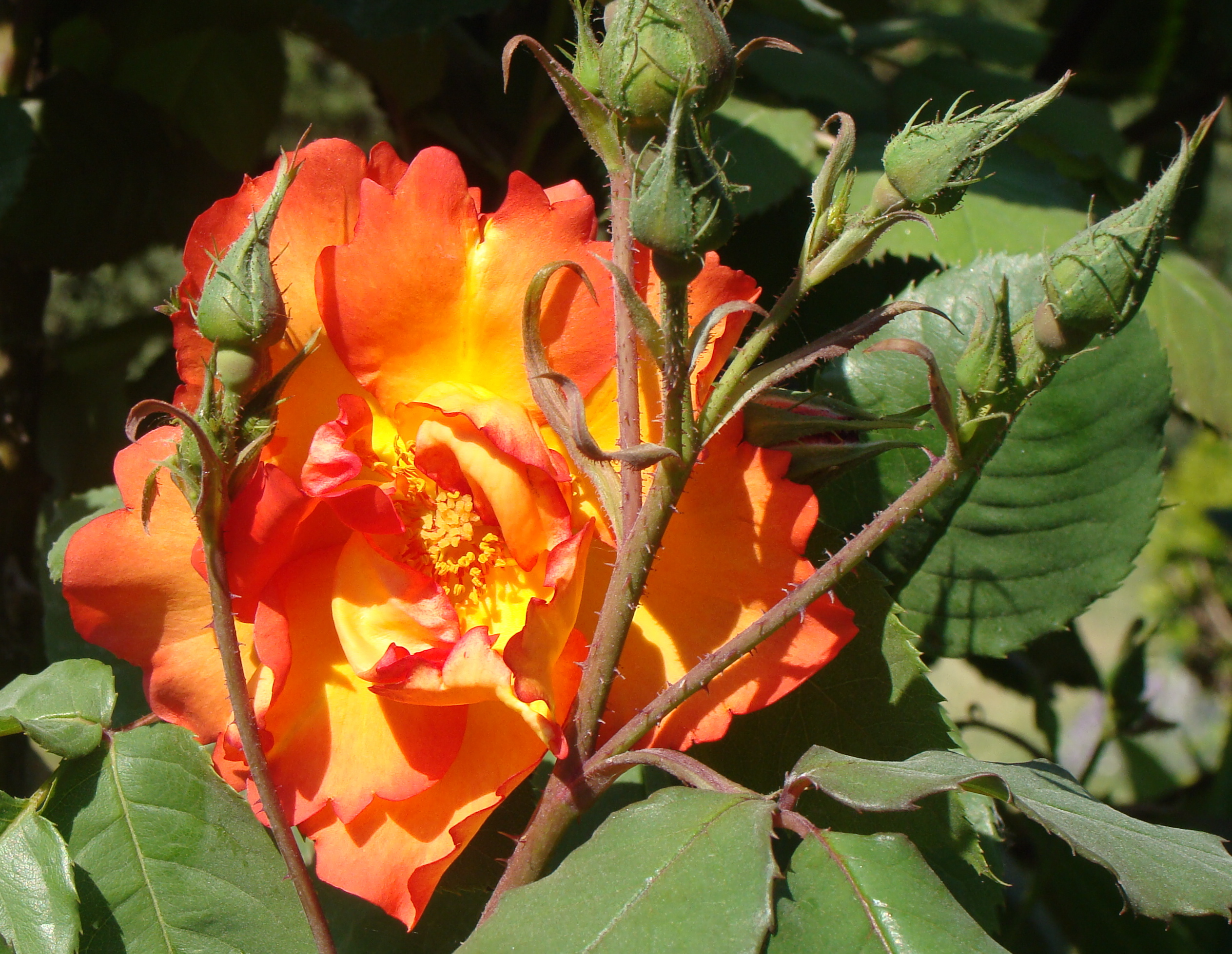 Rosa cultivar Lord Byron, Paris, Jardin des Plantes